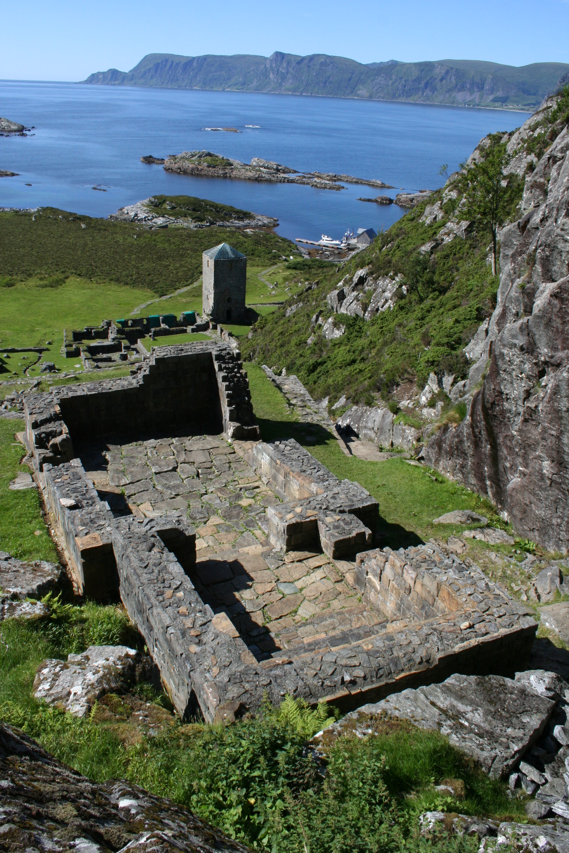 Selje abbey, Sunniva church